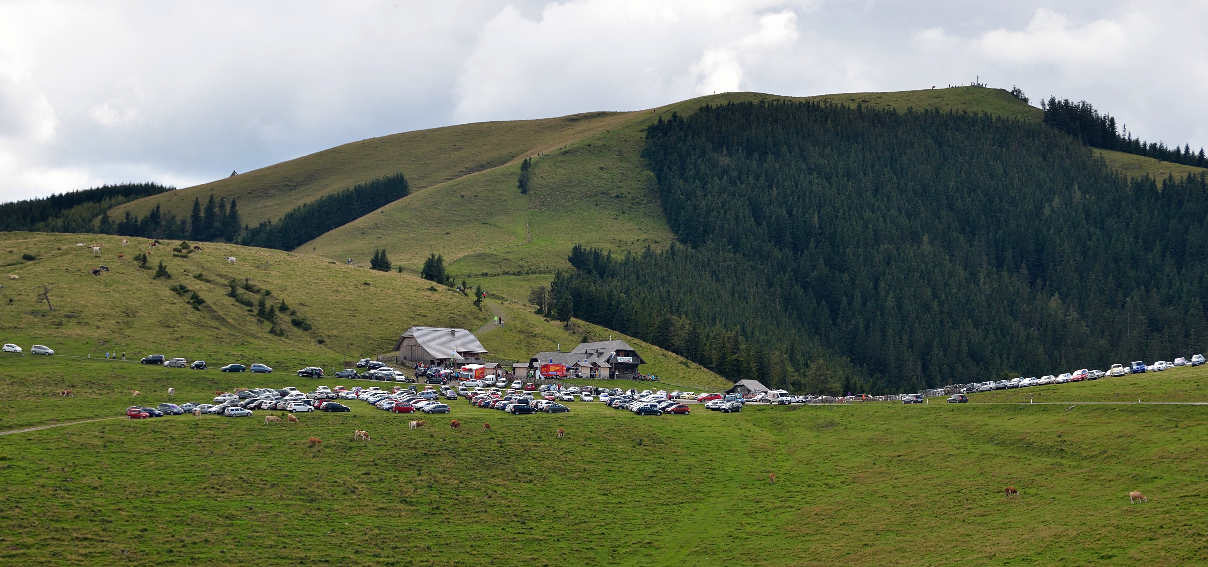 Stoakoglhütte at Sommeralm during a mountain pasture event with traditional music, behind the Plankogel (1531m). Municipality Sankt Kathrein am Offenegg